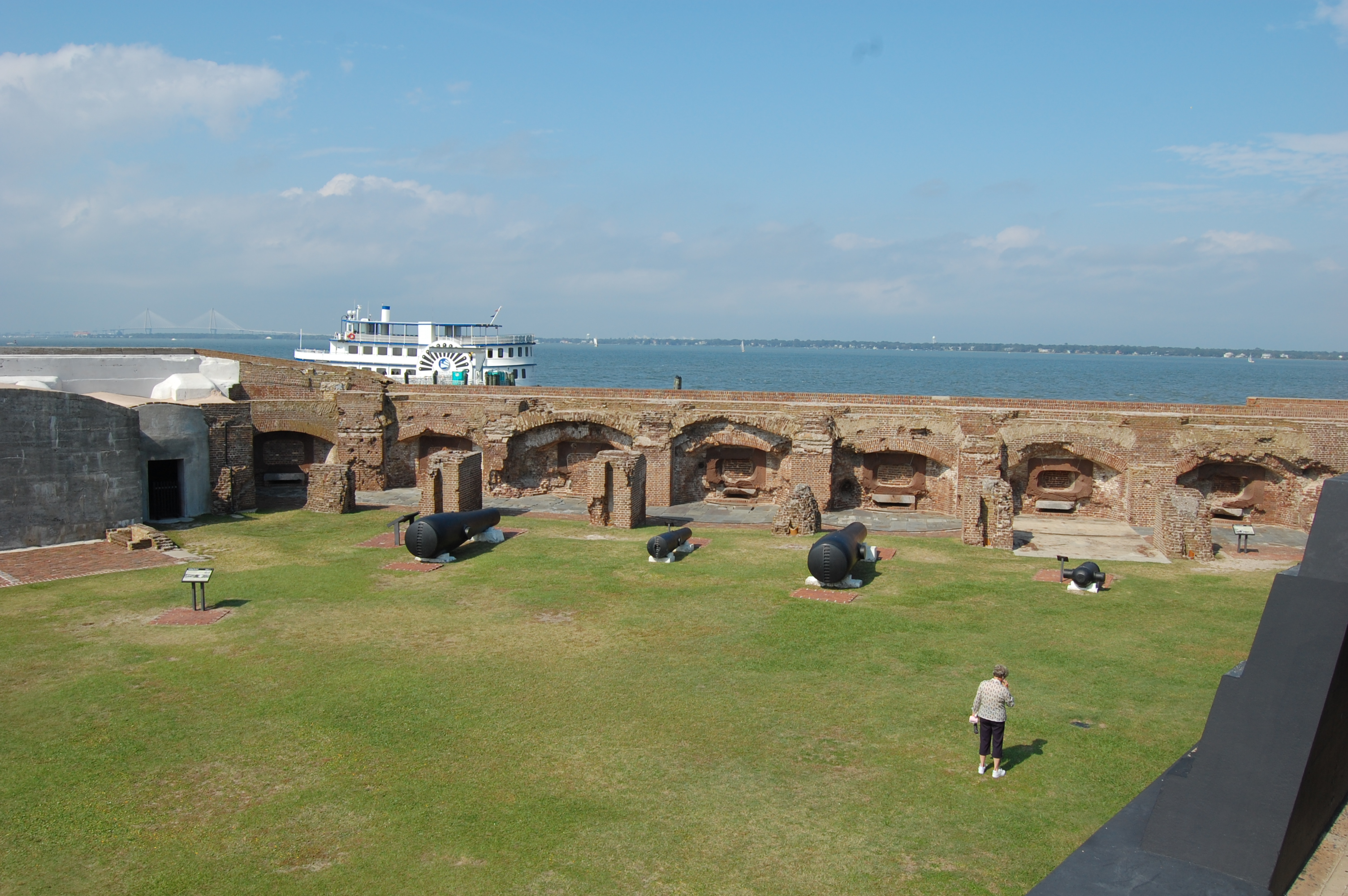 Fort Sumter 2009